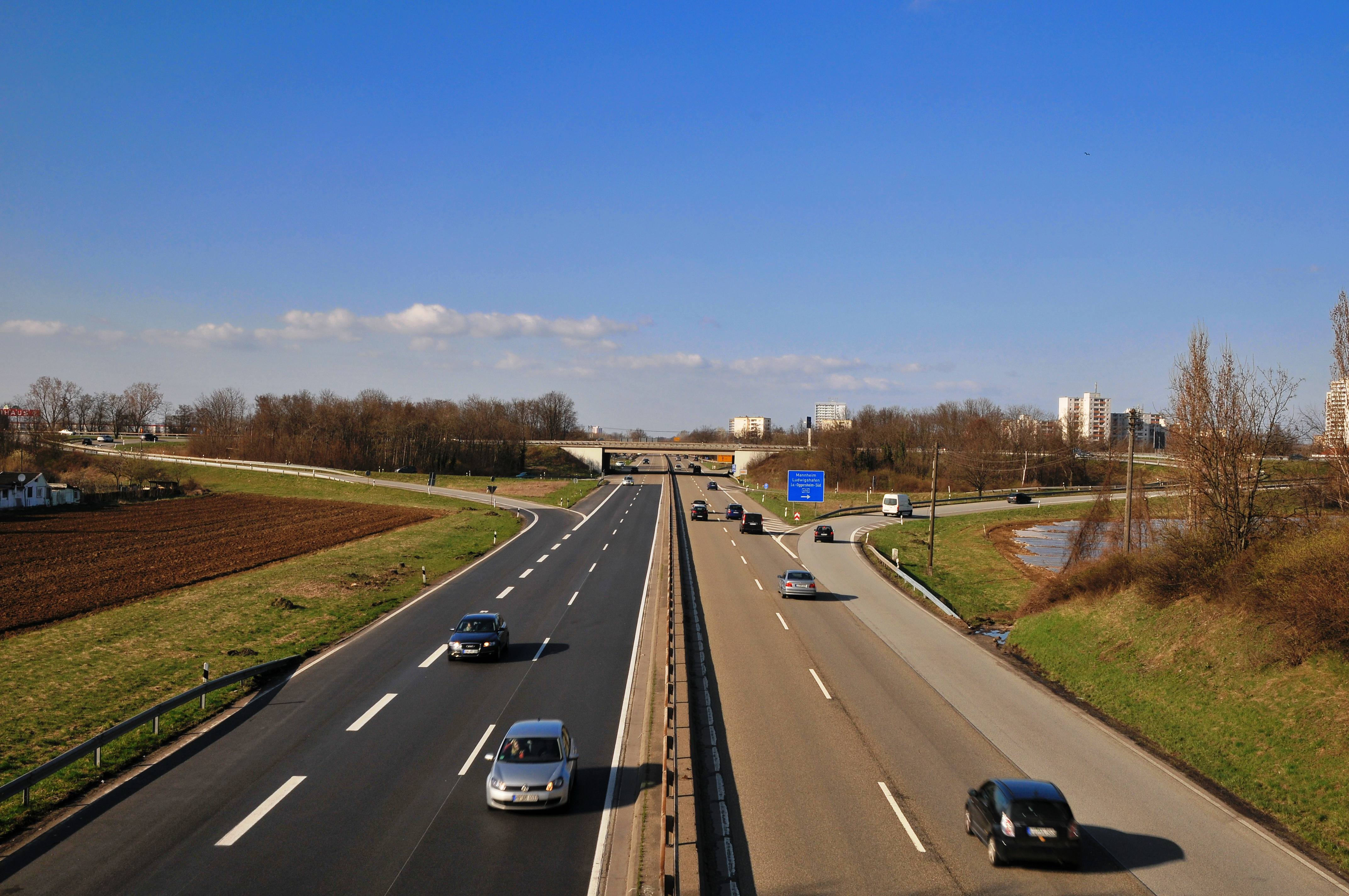 motorway interchange of the german federal road 9 and the german motorway 650.